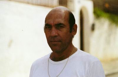 Photograph